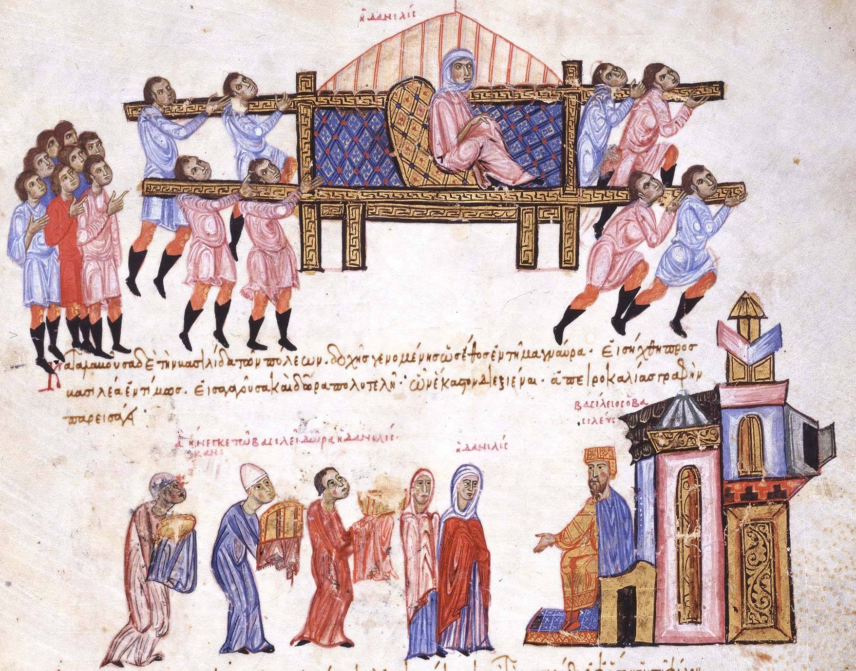 The widow Danielis goes to Constantinople to meet with Emperor Basil I